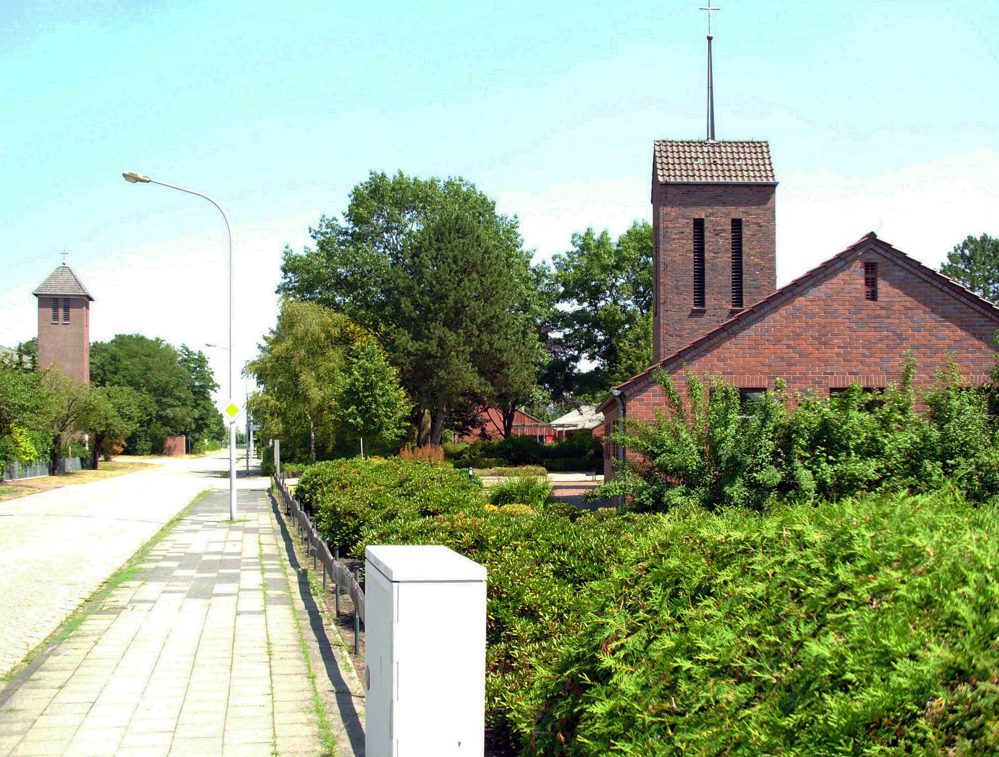 churches of Klausheide (Grafschaft Bentheim)